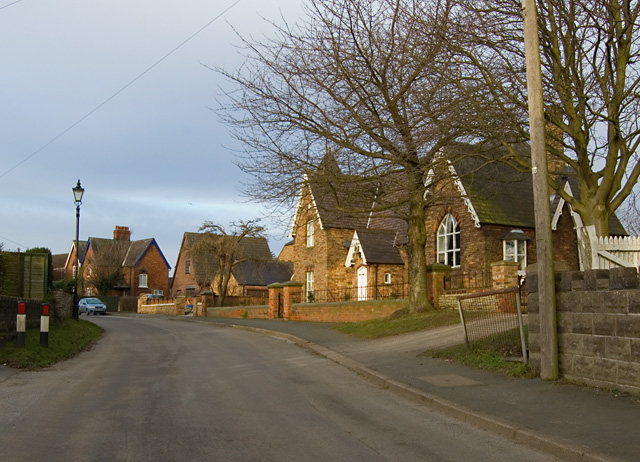 North Street, Roxby Looking west from close to the church.